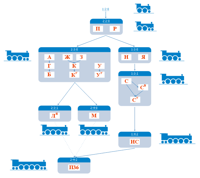 Russian passenger steam locomotives diagram